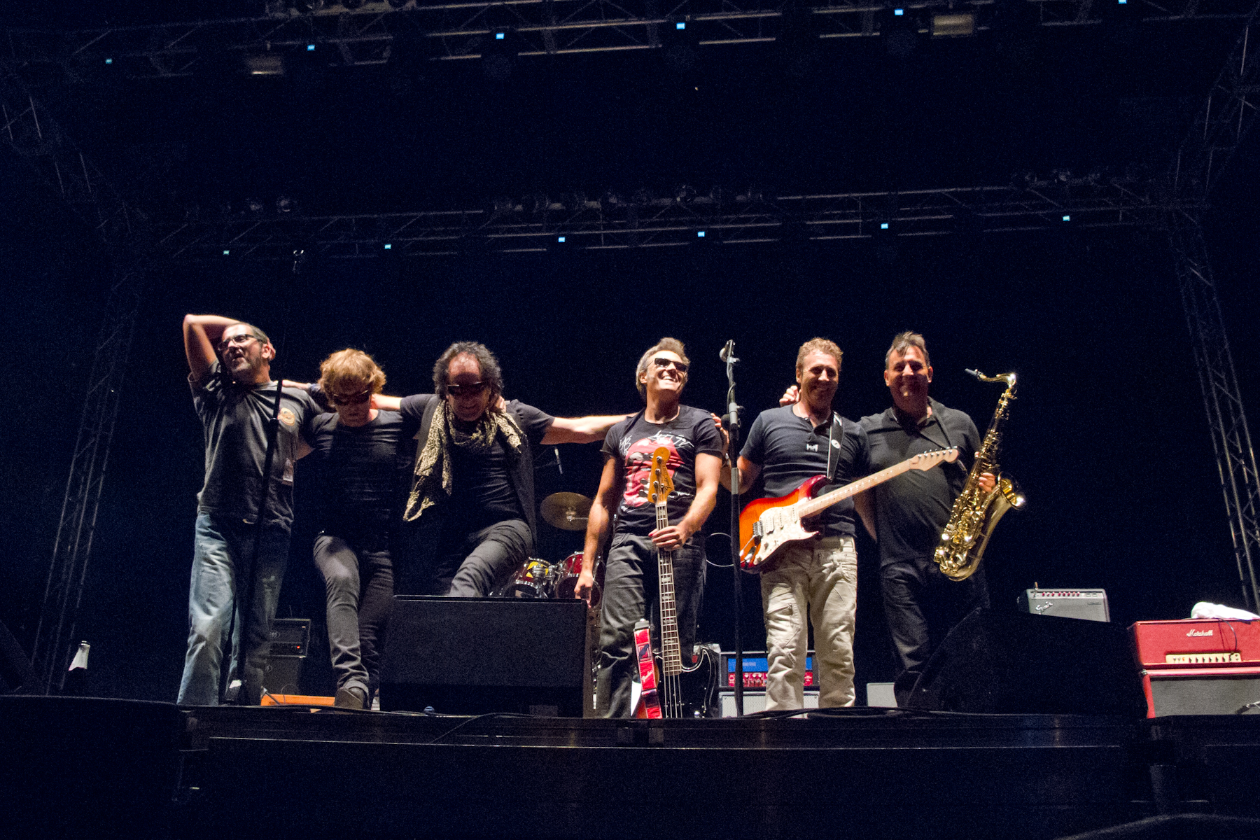 Burning performing live in 2012.